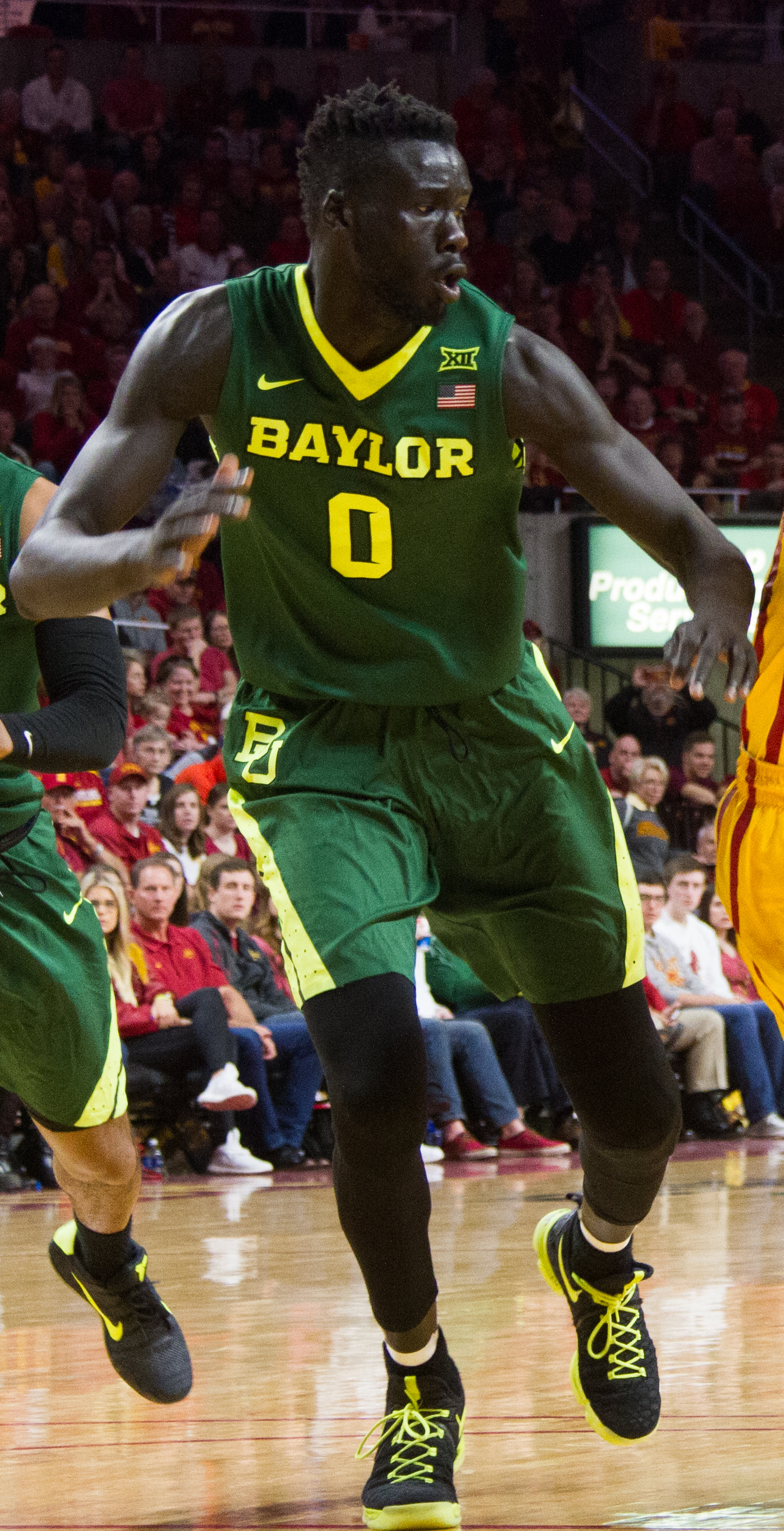 Iowa State upset #9 Baylor, 72-69